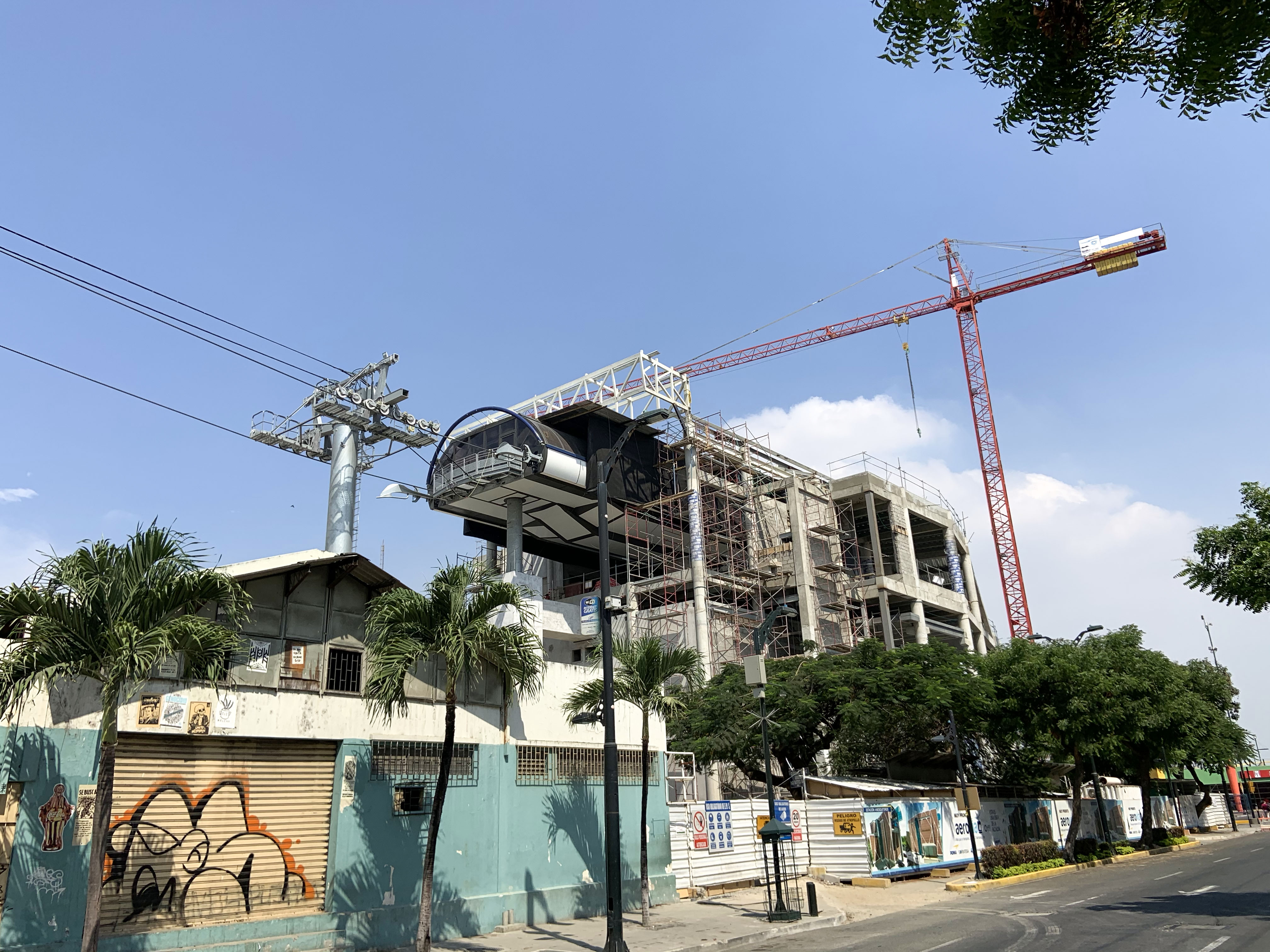 'Cuatro Mosqueteros' station of the Aerovía cable car system, Guayaquil, Ecuador, December 2019